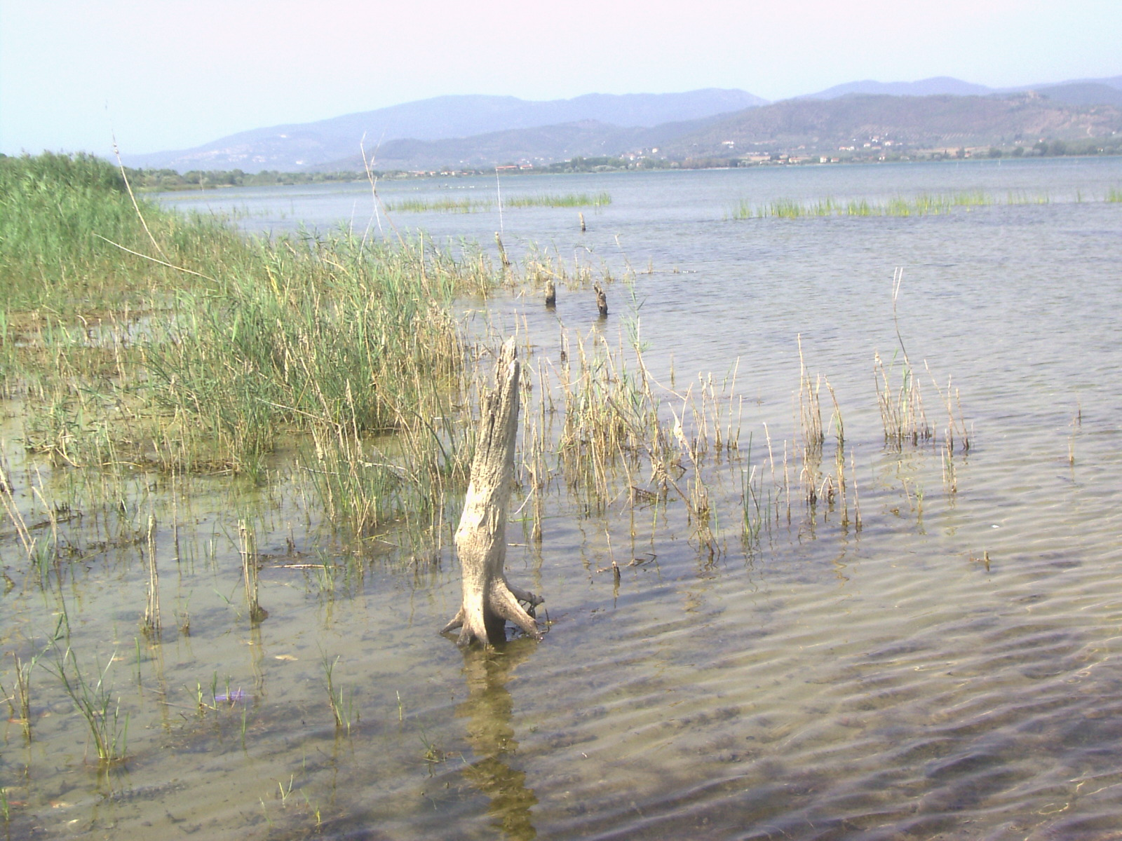 trees remains in the Trasimeno Lake